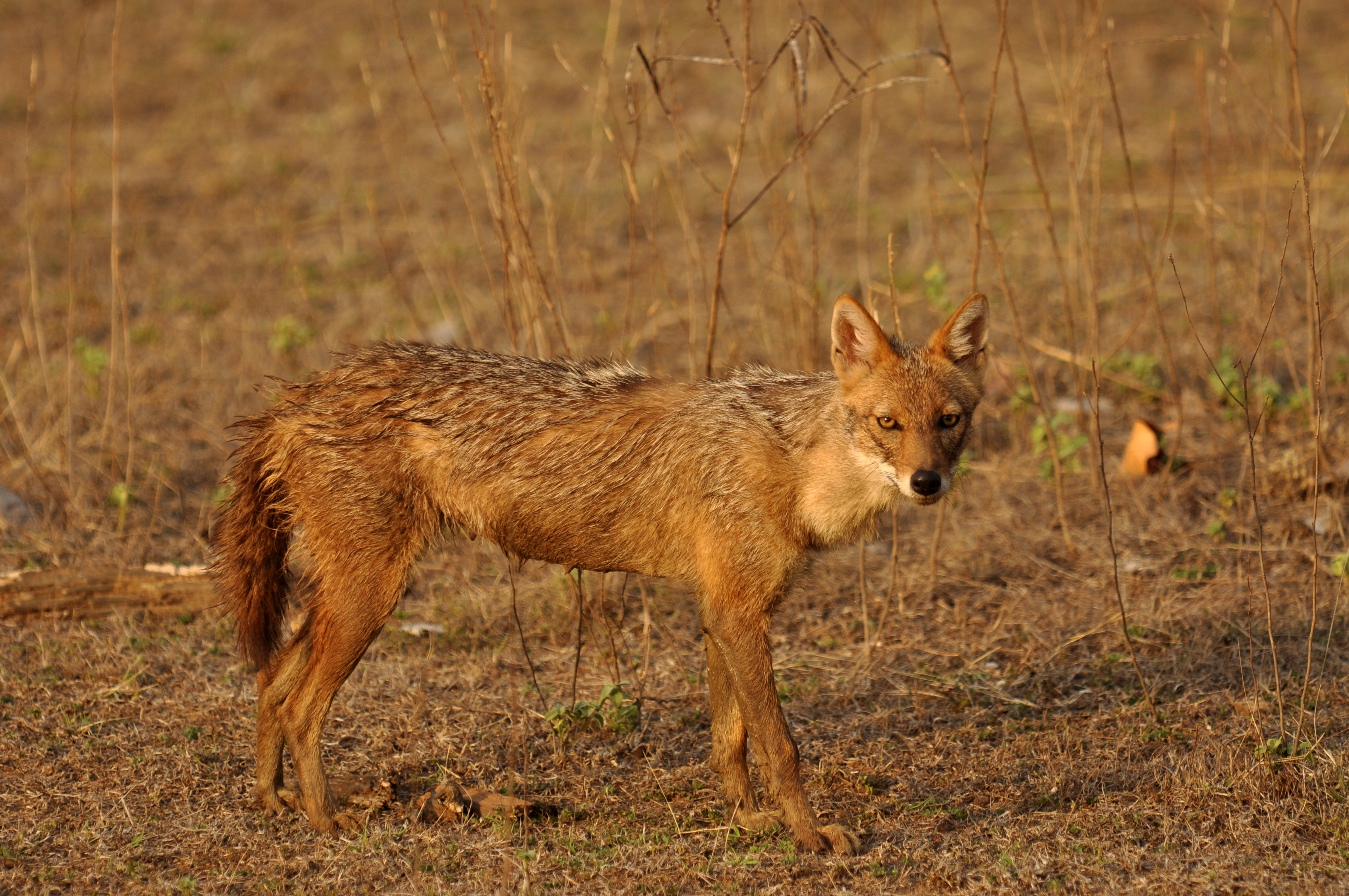 A golden jackal in Kanha Tiger Reserve, central India